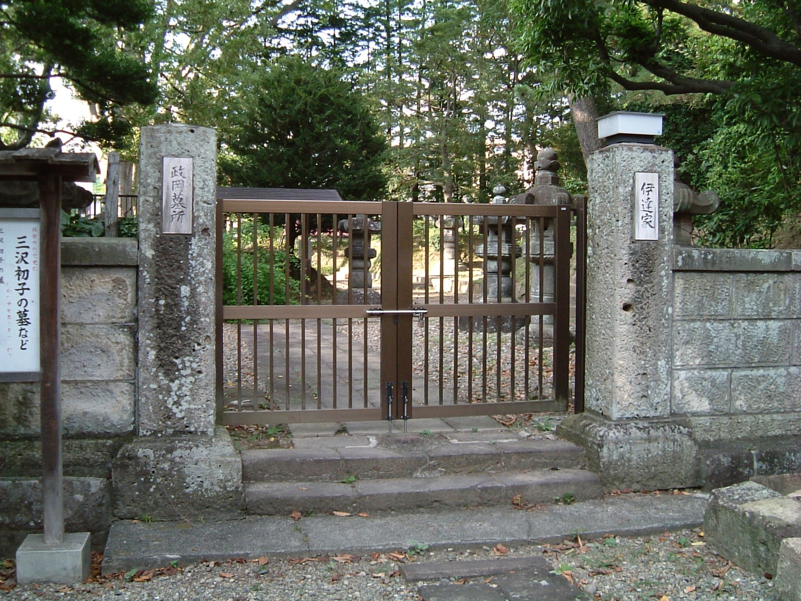 Grave Site of Misawa Hatsuko and Others in Sendai-shi, Miyagi Prefecture